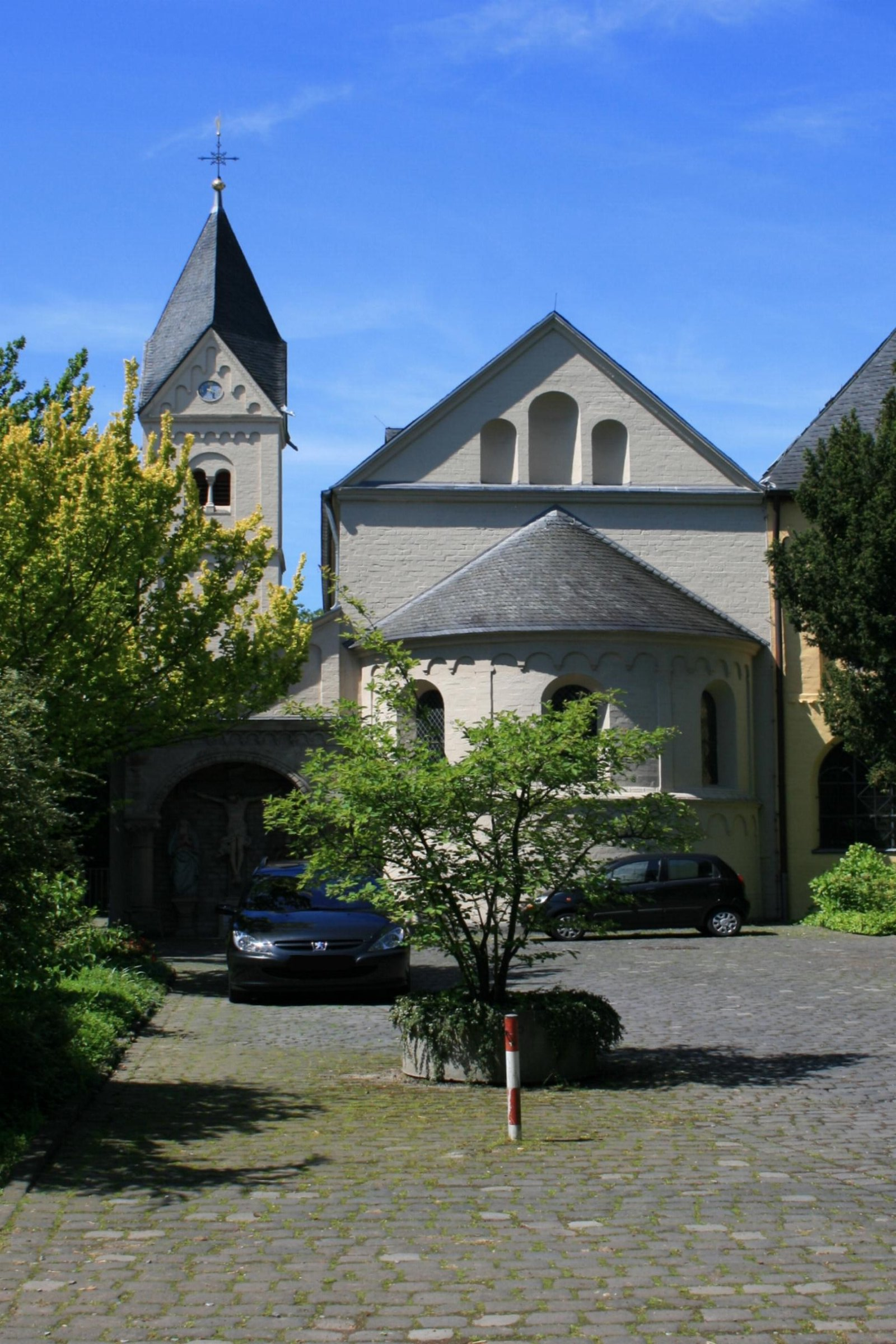 Cultural heritage monument No. D 009a in Mönchengladbach